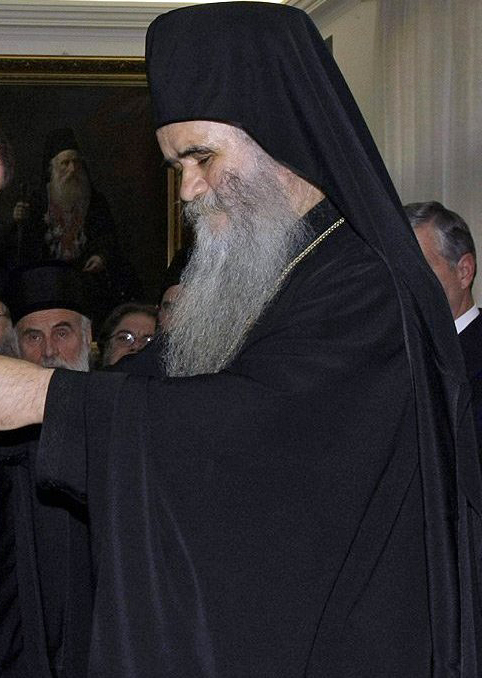 Amfilohije Radović. October 20, 2009